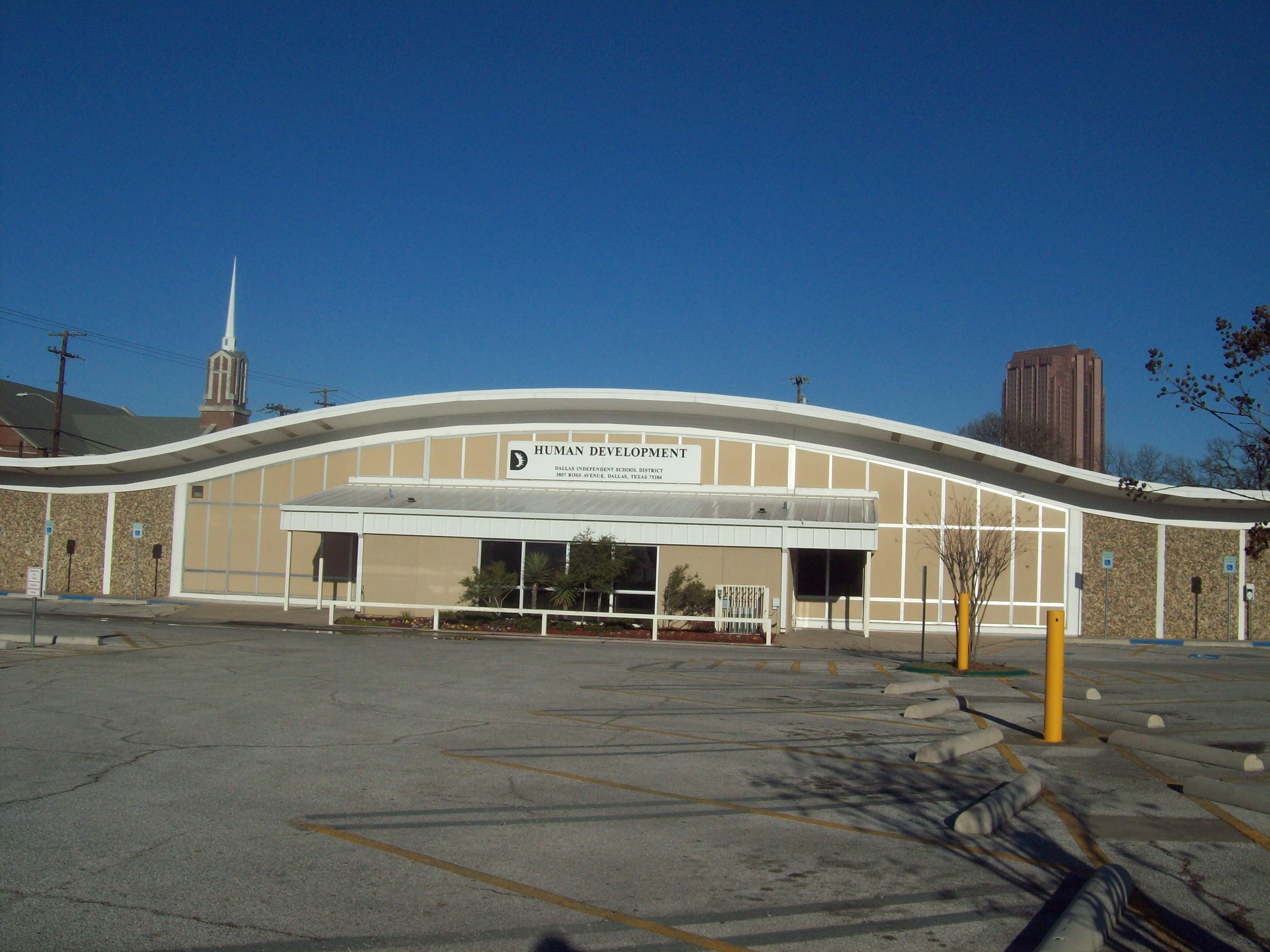 DISD building - a former Safeway store Ross Ave. at Washington, Dallas, TX.